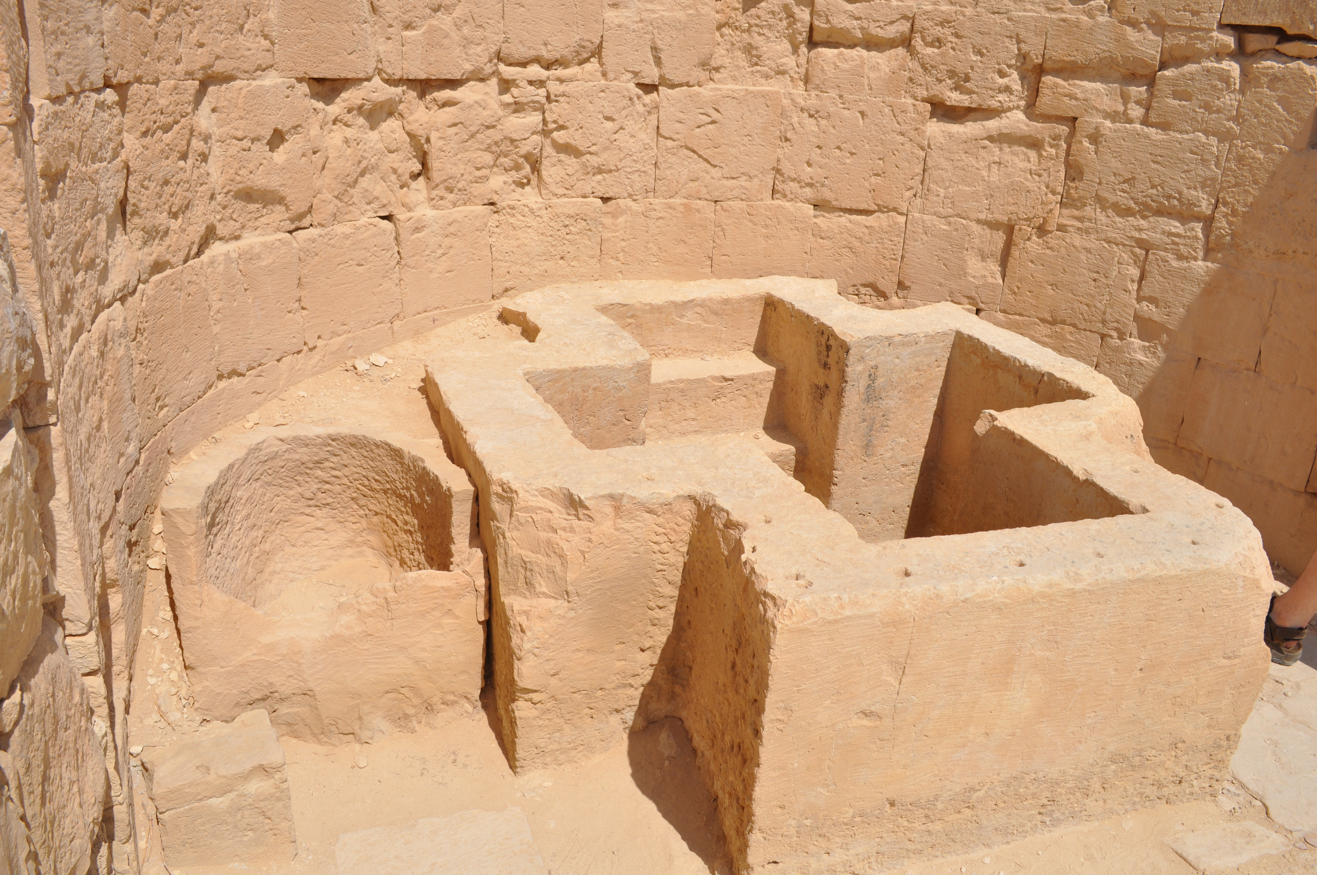 Shivta